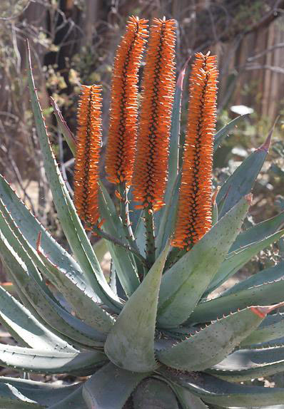 Aloe ferox plant in George,South Africa